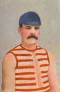 Peter Burns, an Australian rules footballer who played for South Melbourne and Geelong.